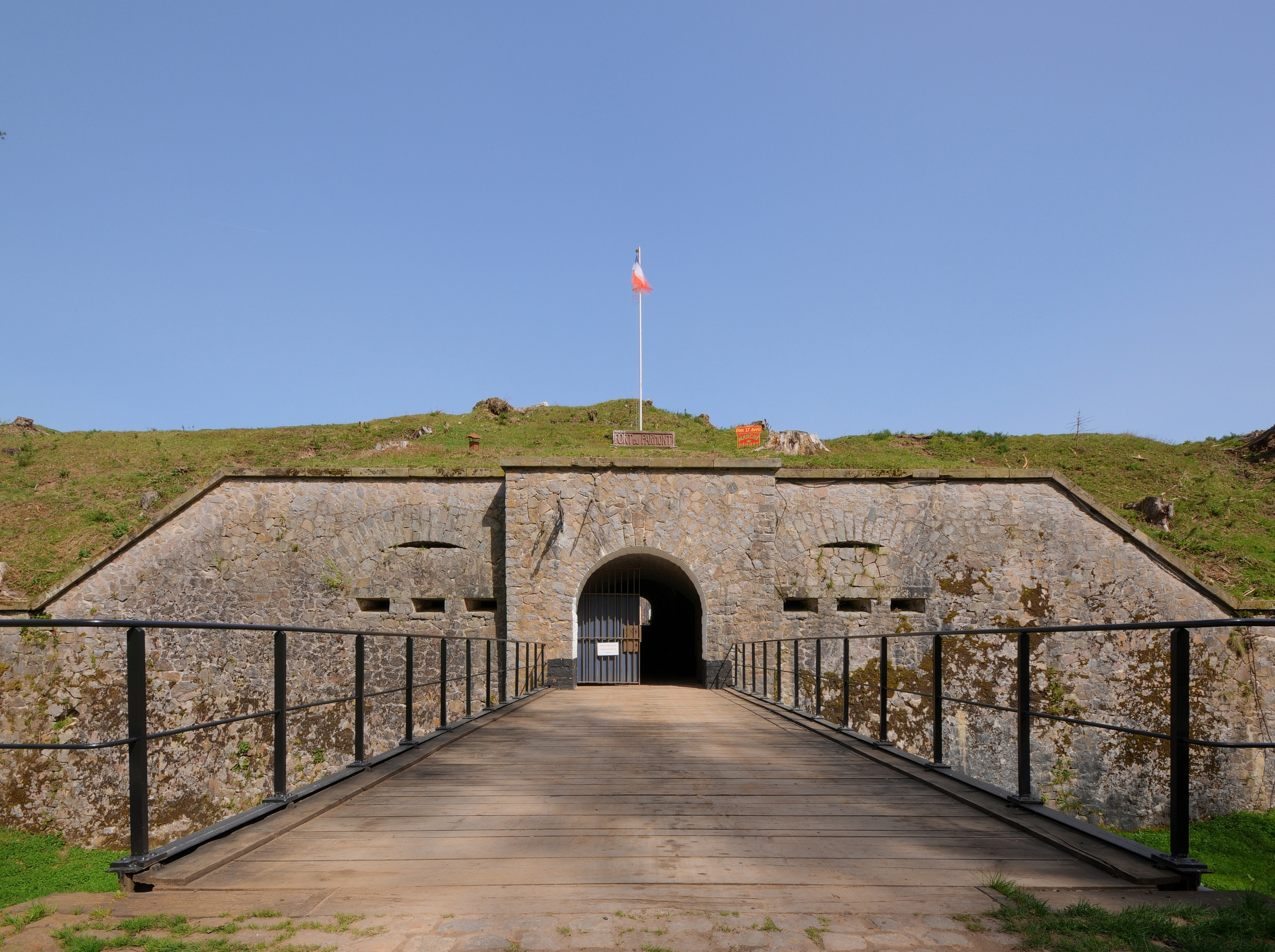 This photograph was taken with a Nikon D300 Entrée du fort. Parmont hill fortifications (HDR).